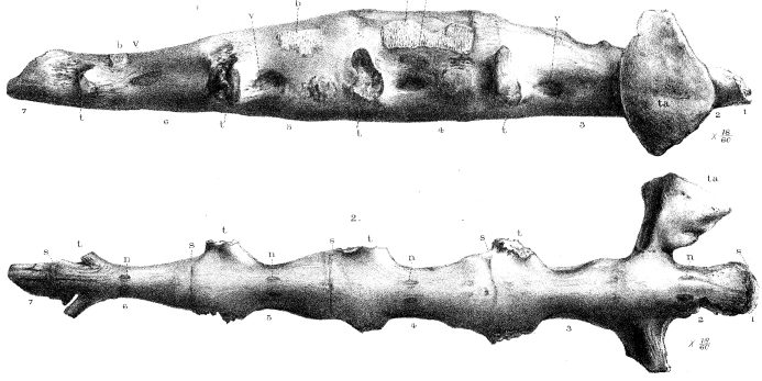 Thecospondylus horneri neural canal cast